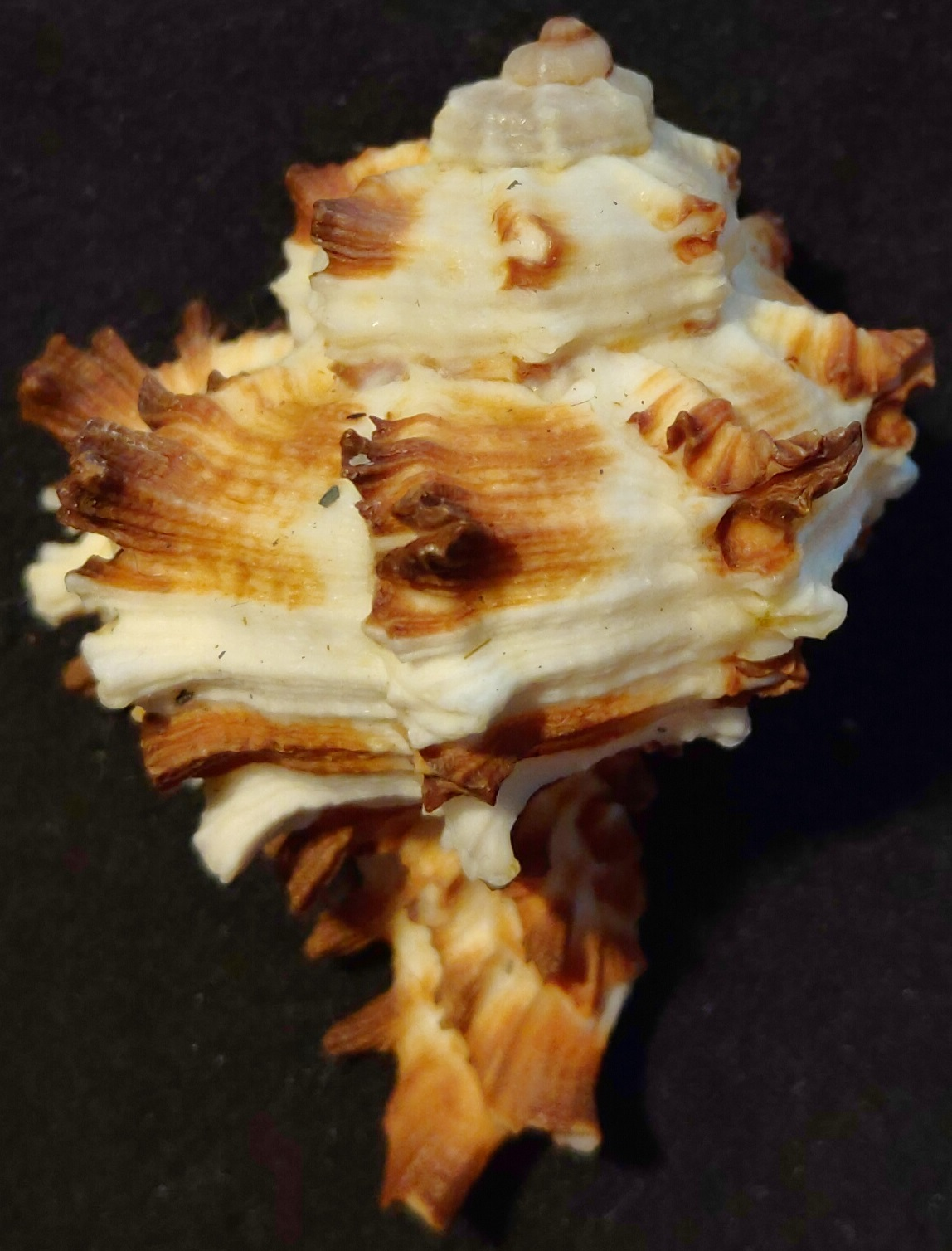 Hexaplex Cichoreum Depressospinosus Back